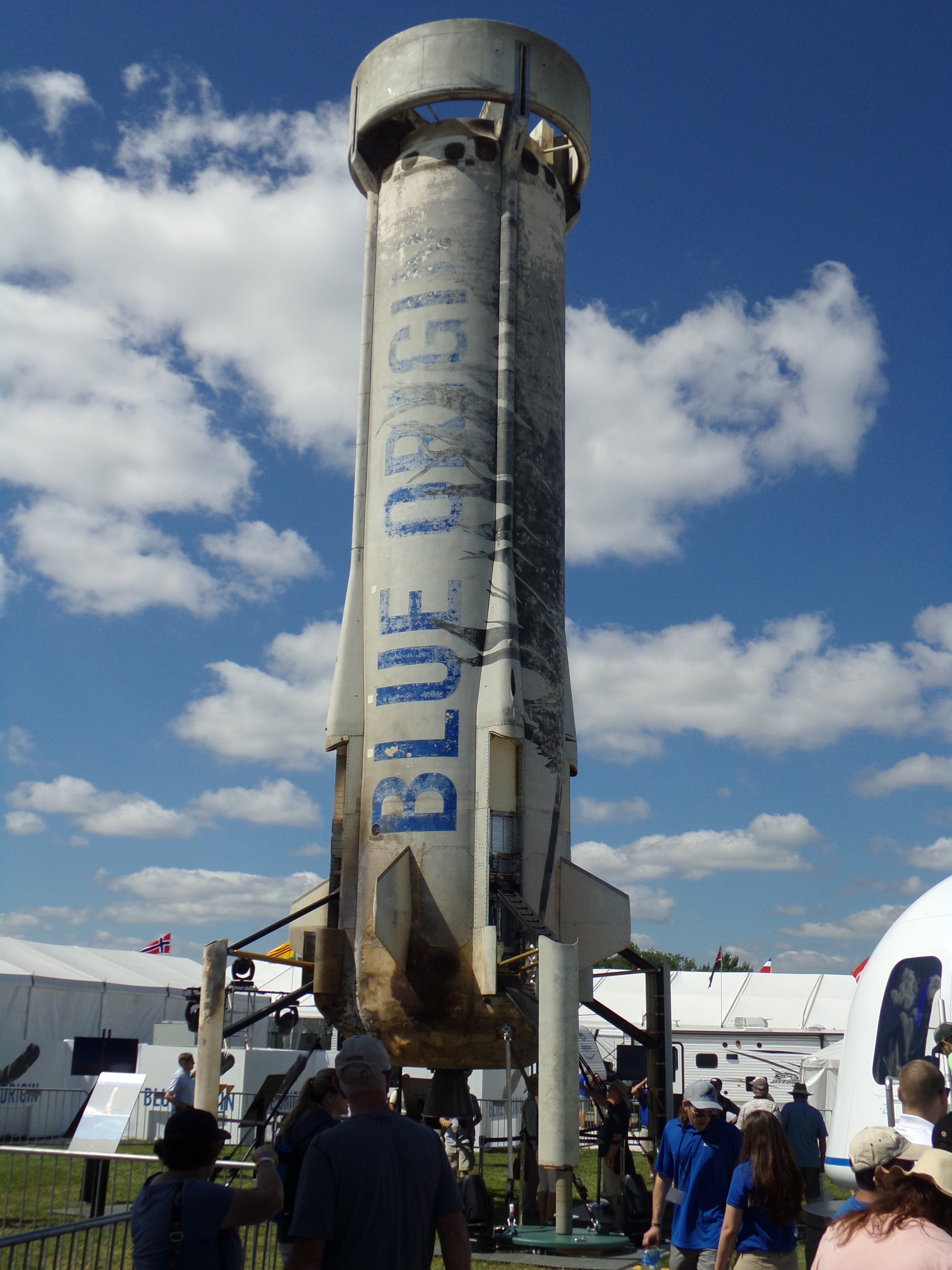 Oshkosh Airventure 2017 Oshkosh, Wisconsin, July 24th, 2017 Monday of Airshow